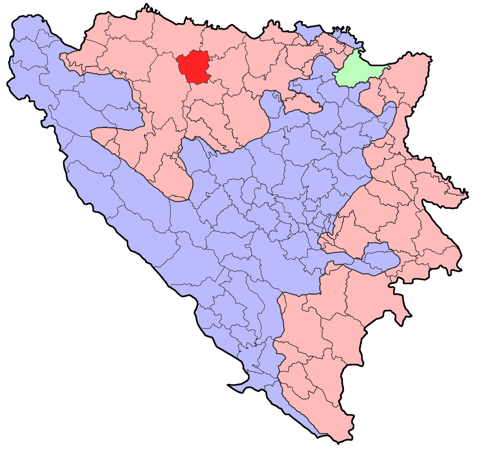 Location of Laktaši municipality in Bosnia and Herzegovina.